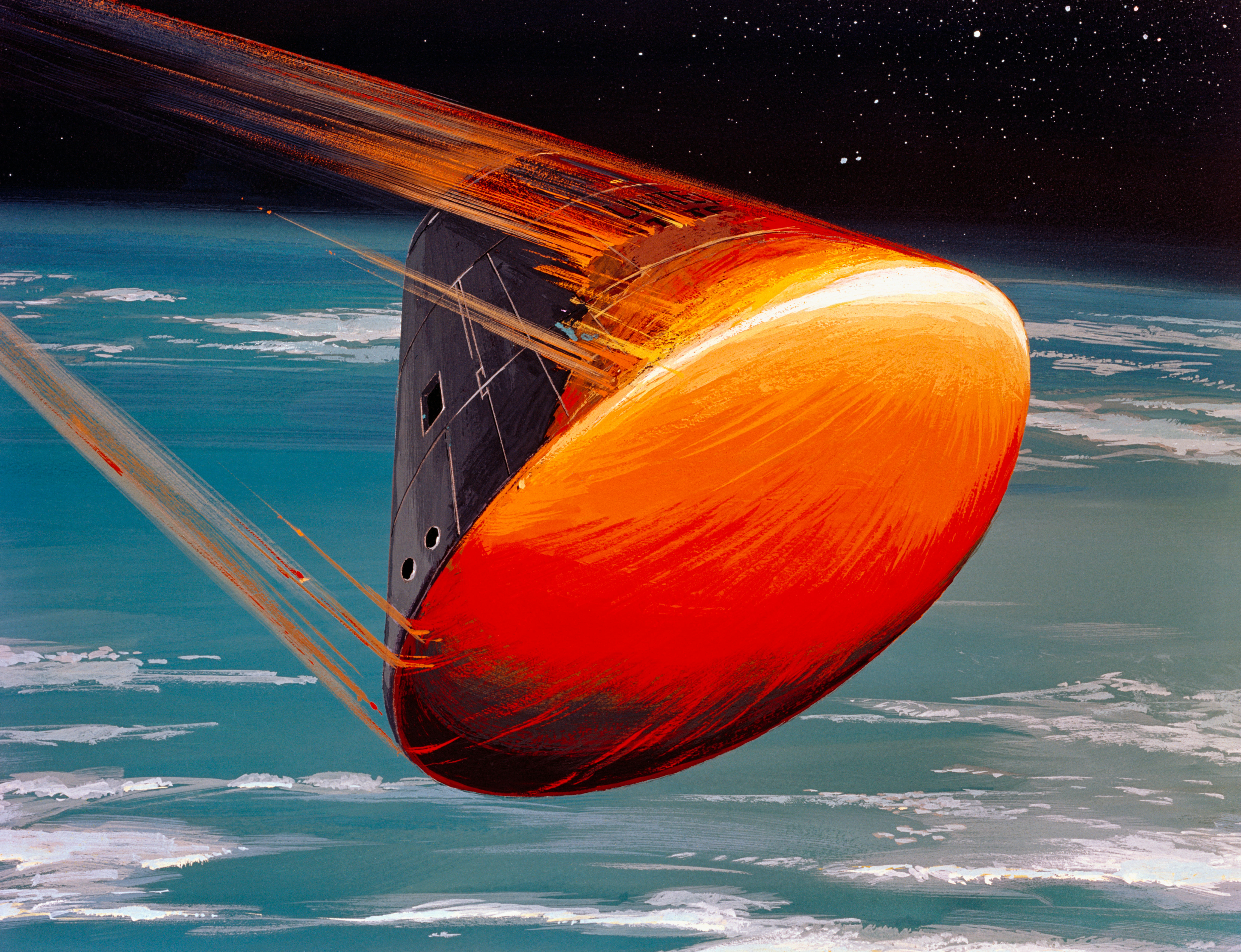 A North American Rockwell Corporation artist's concept depicting the Apollo Command Module (CM), oriented in a blunt-end-forward attitude, re-entering Earth's atmosphere after returning from a lunar landing mission. Note the change in color caused by the extremely high temperatures encountered upon re-entry.